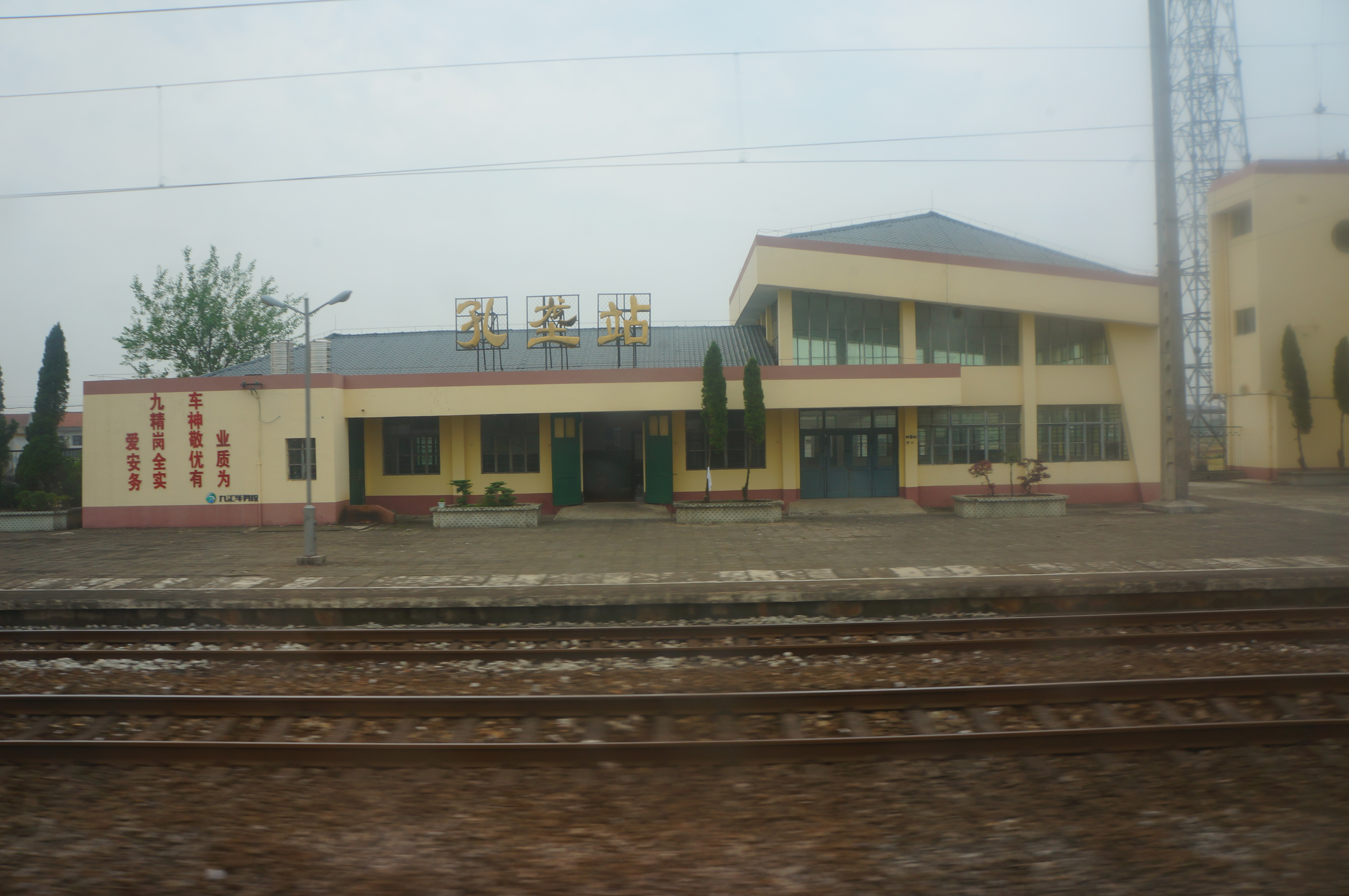 201705 Station Building of Konglong Station